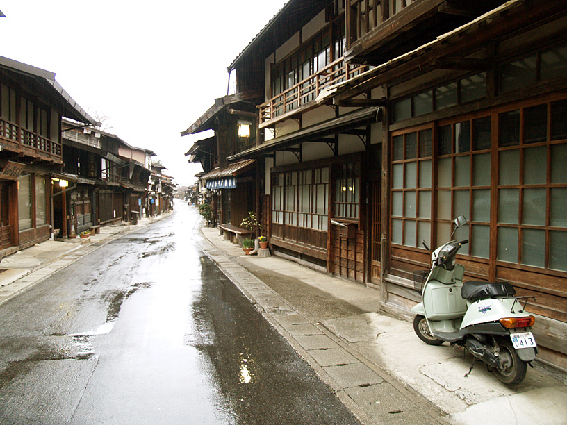 Old Post Town Narai